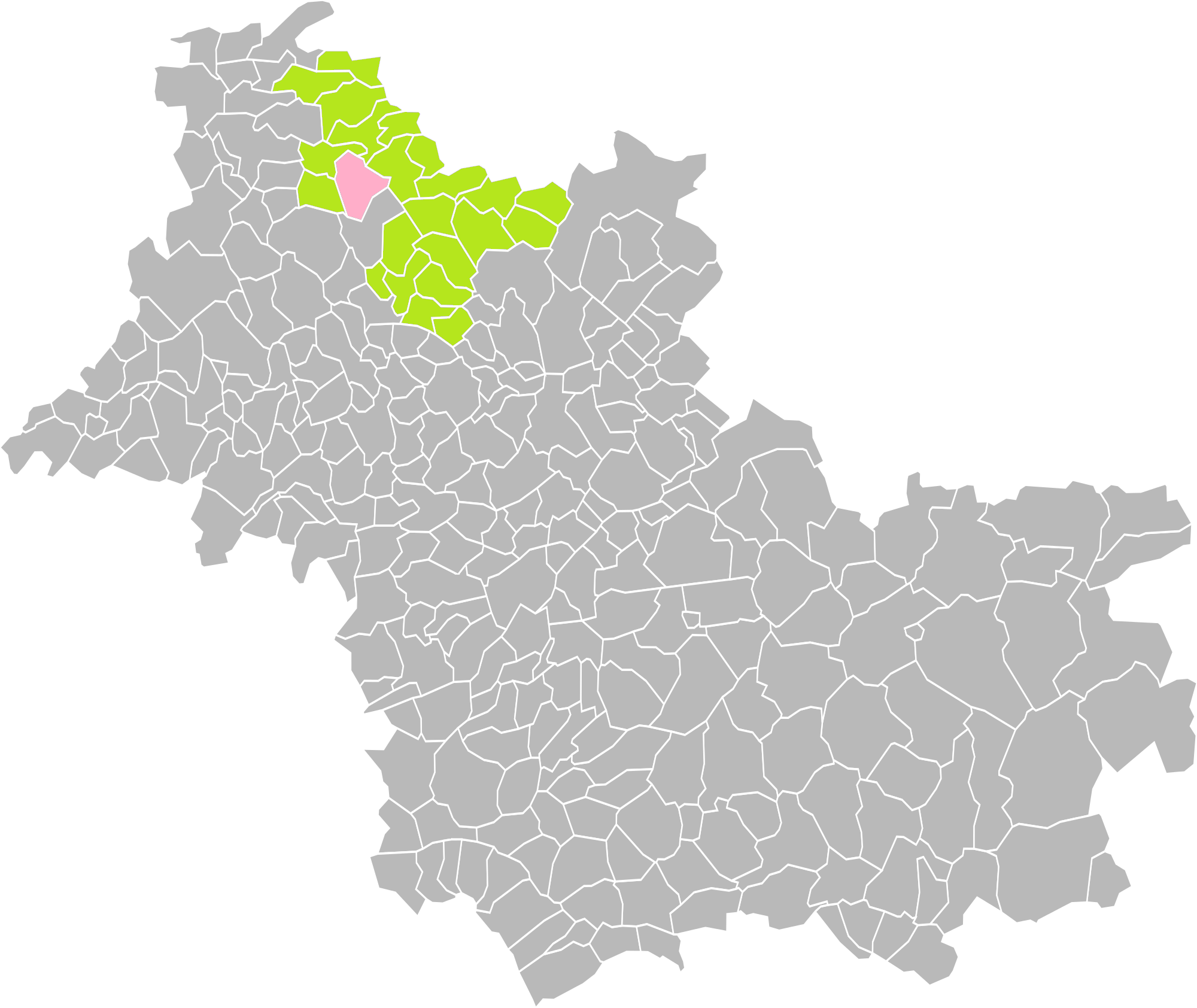 Location of the commune of Chauvigny-du-Perche in the Communauté de communes du Perche et Haut-Vendômois (Loir-et-Cher)